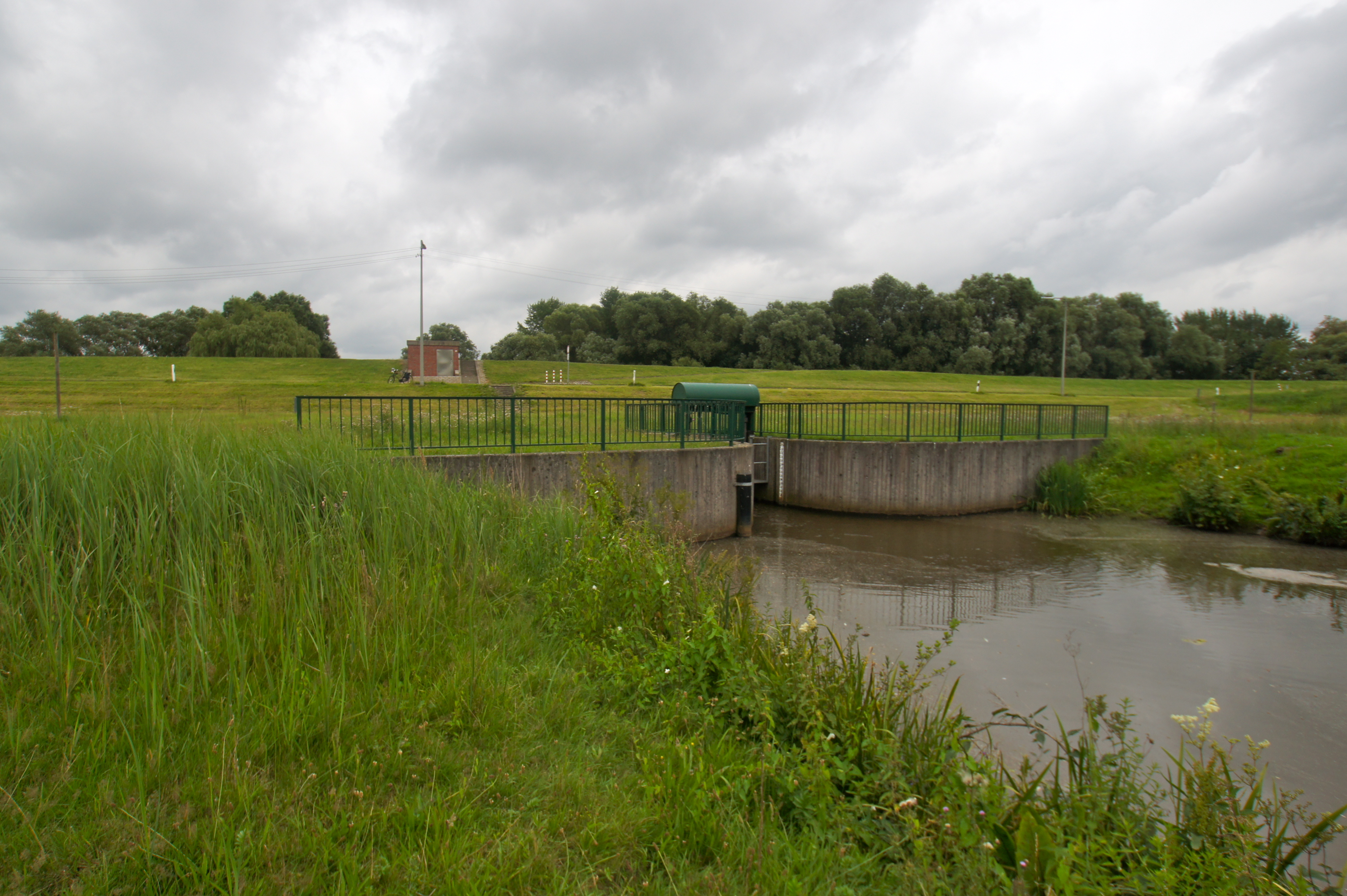 Hamburg (Wilhelmsburg), Germany: Georgswerder Schleusengraben